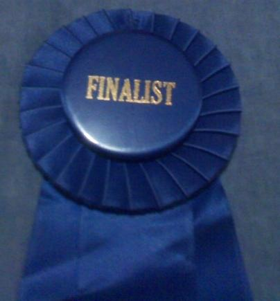 A blue ribbon by Moe Epsilon.